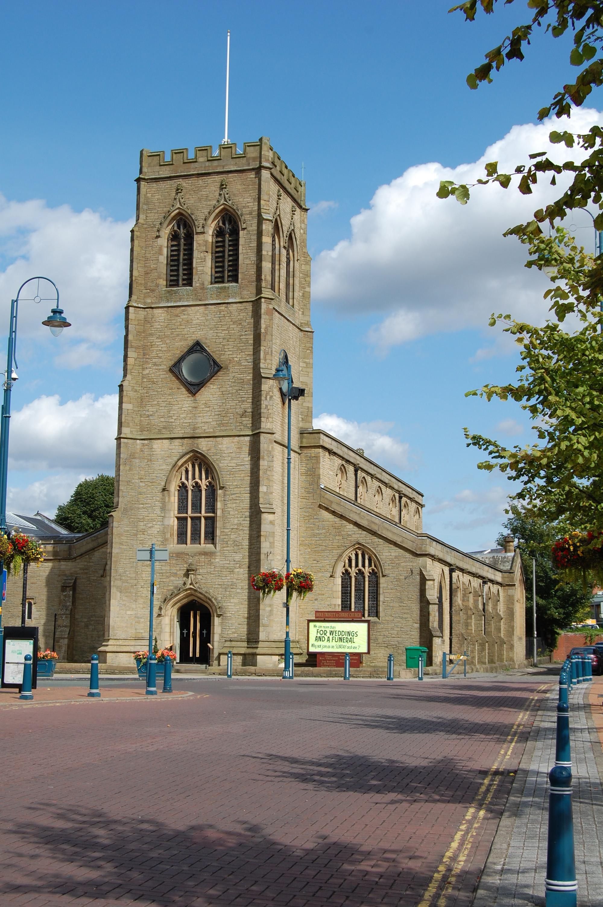 Holy Trinity and Christ Church parish church, Trinity Street, Stalybridge, Greater Manchester, seen from the west from Rose Terrace